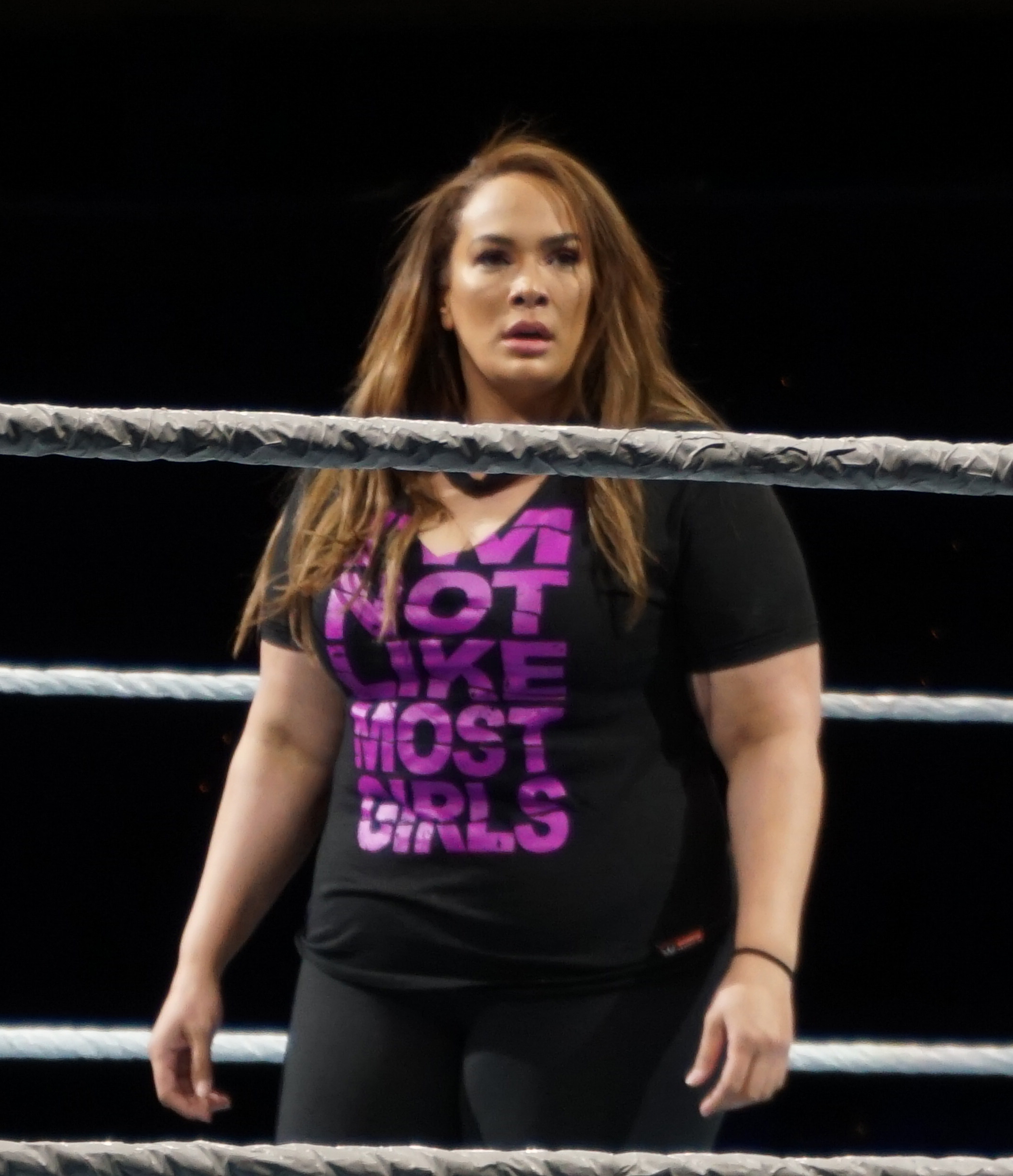 Jax at the WWE live show in Buffalo, NY on March 25th, 2018